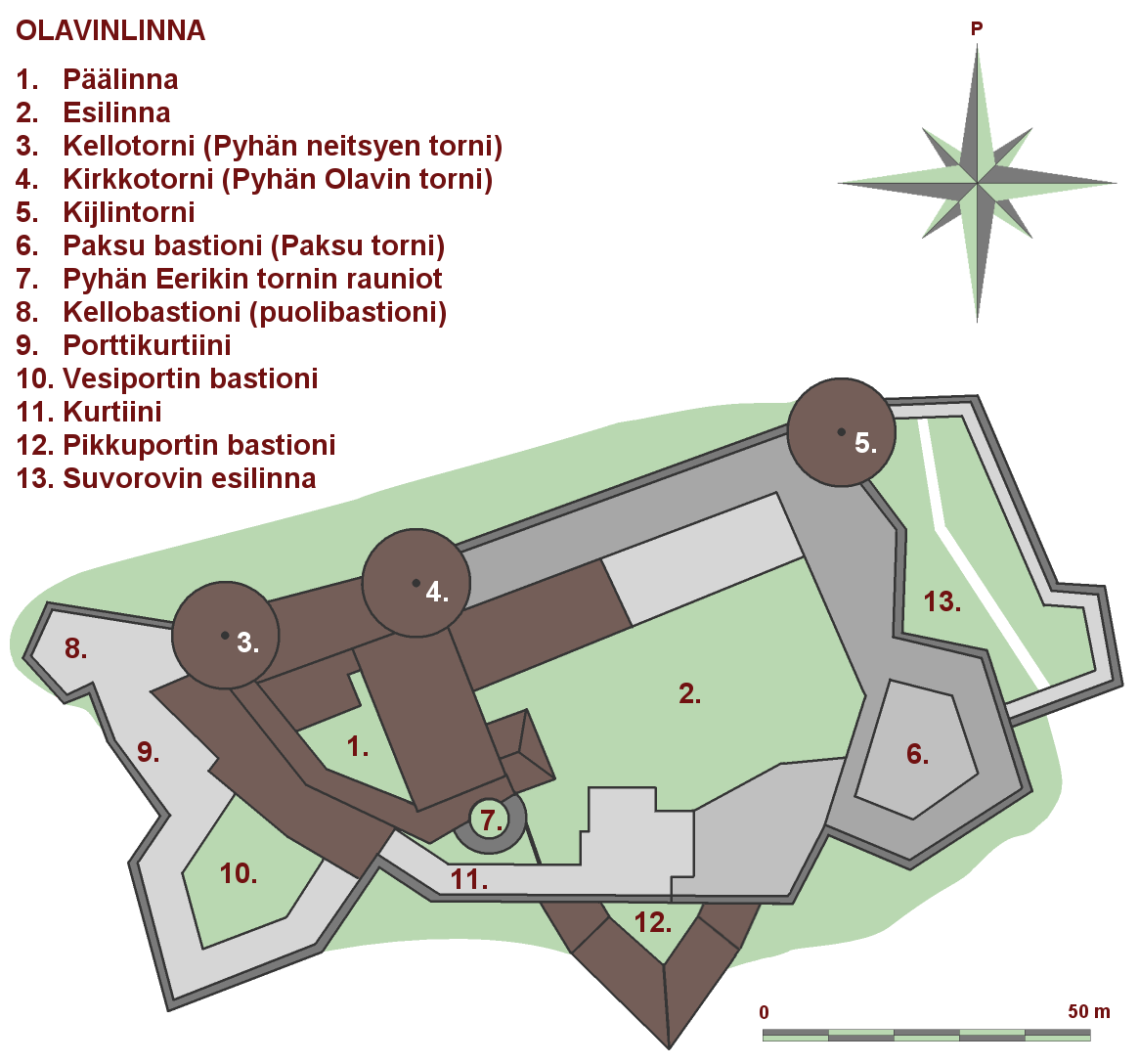 Olavinlinna ground plan.